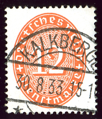 Official Stamp of Germany, 12 Pfg issue 1932, cancelled KALKBERGE in 1933 (Brandenburg).